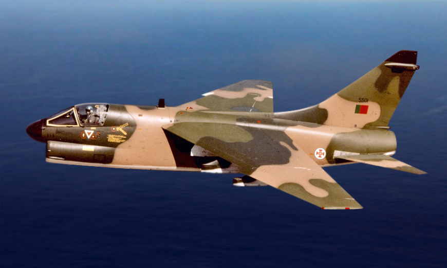 cropped version Portuguese A-7P Corsair II in flight c1984 II